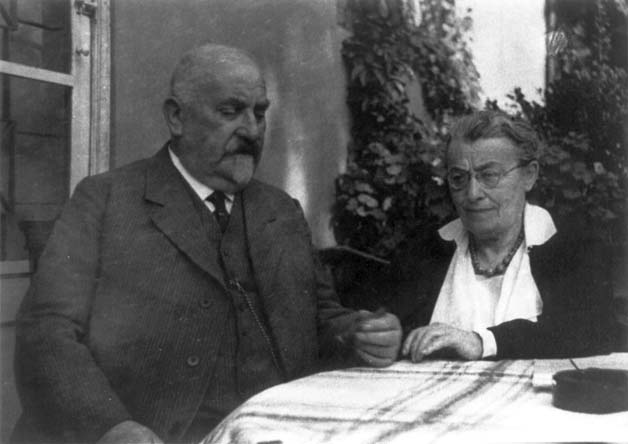 Moritz and Rebecca Hanf, Witten